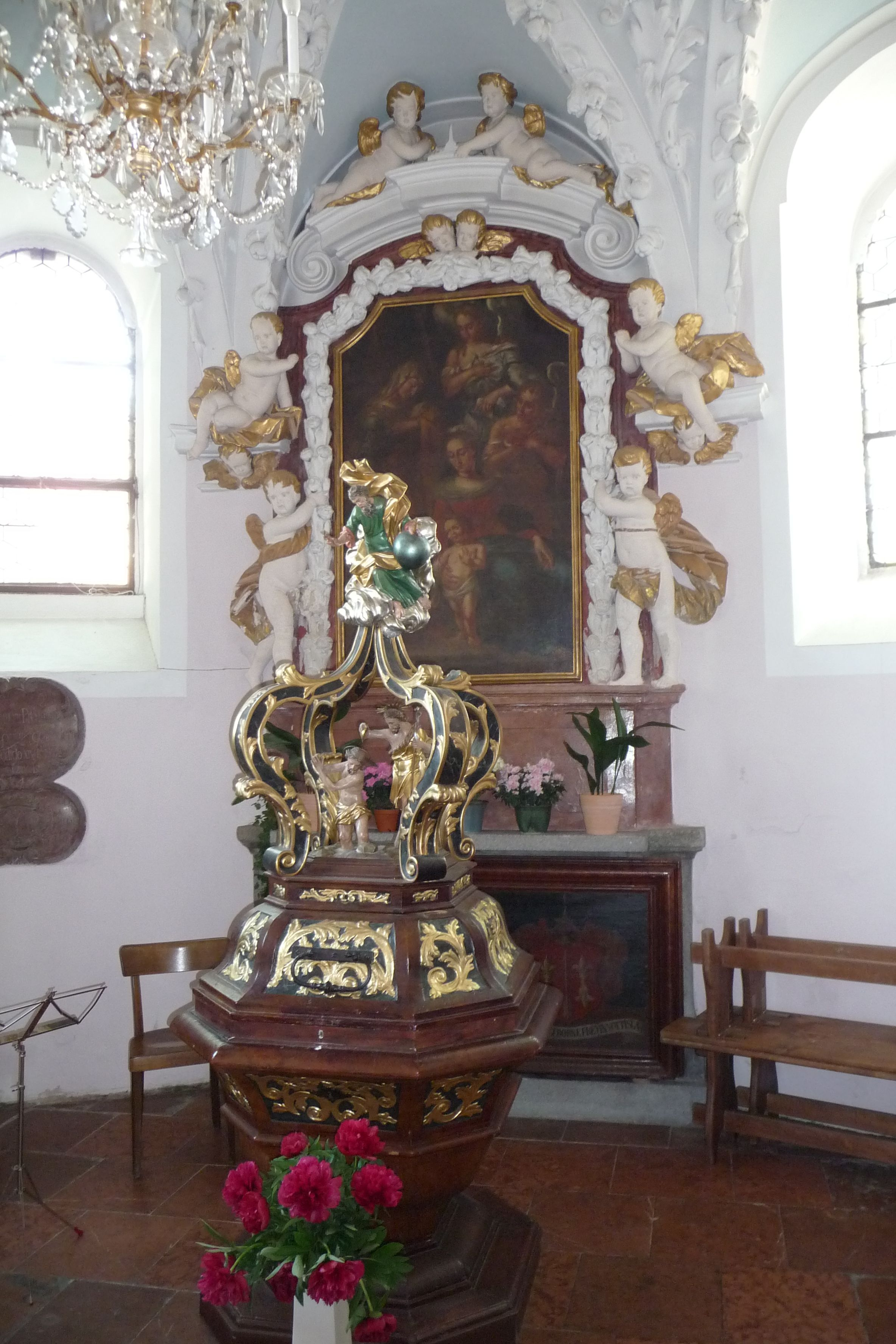 Annakapelle in parish church in Rohrbach Upper Austria